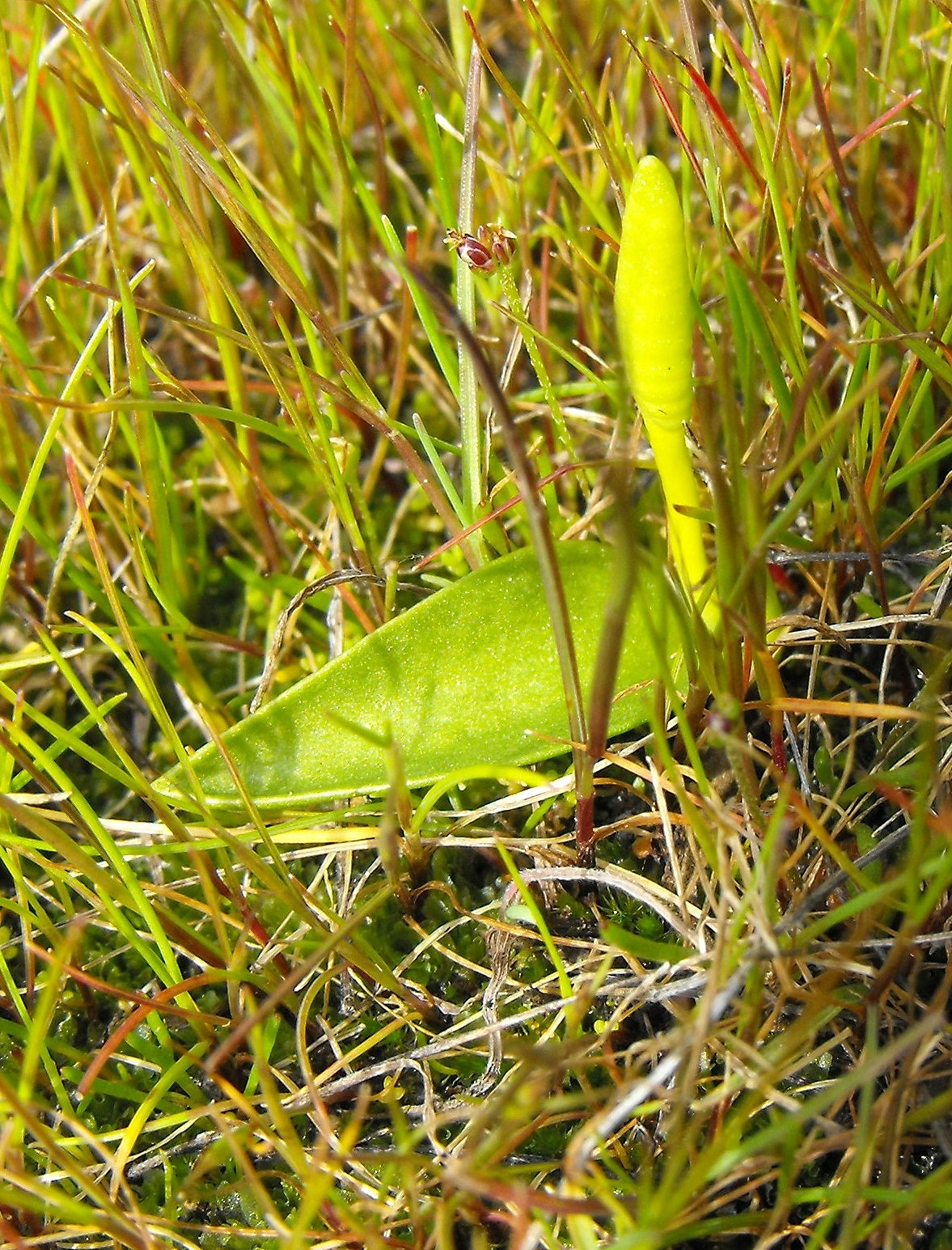 Ophioglossum californicum near vernal pools on Carmel Mountain, San Diego, California, USA.